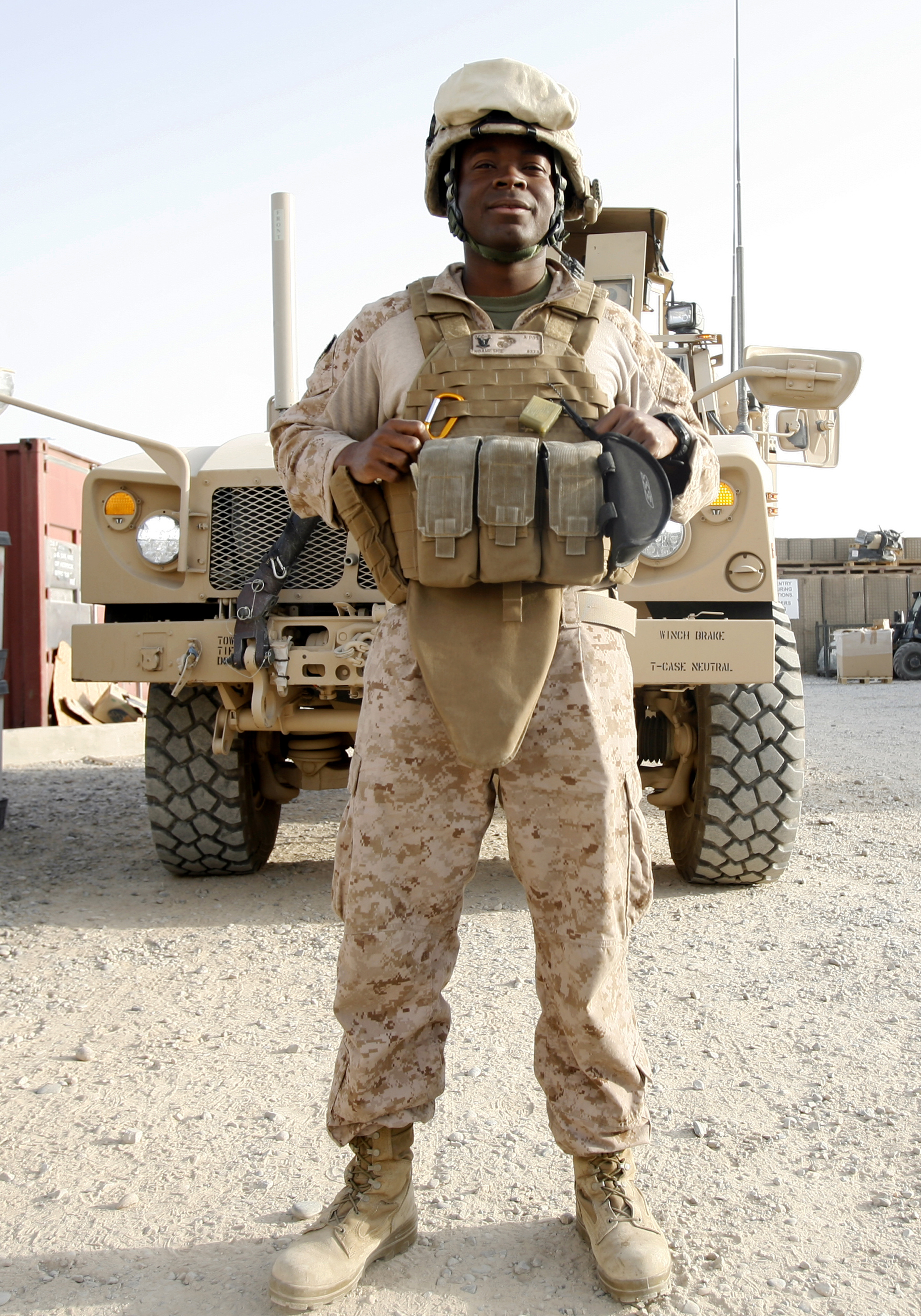 Petty Officer 3rd Class Kossi Noameshie poses before a mission to the Afghan National Civil Order Police compound, Lashkar Gah, Helmand province, July 26. Noameshie often attends to the medical needs of Afghan locals as well as training the ANCOP’s medics.